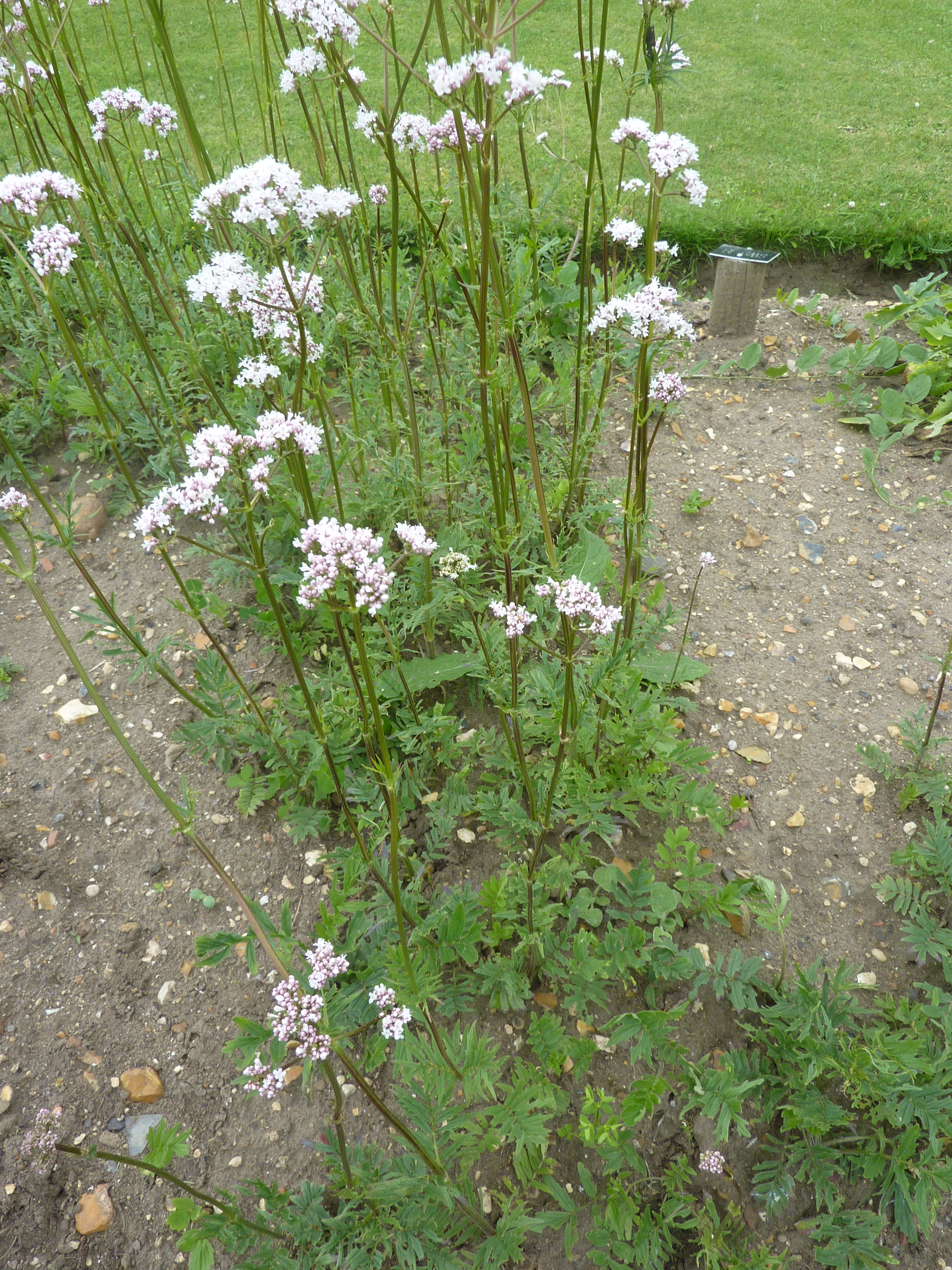 Taken in the Cambridge University Botanic Garden